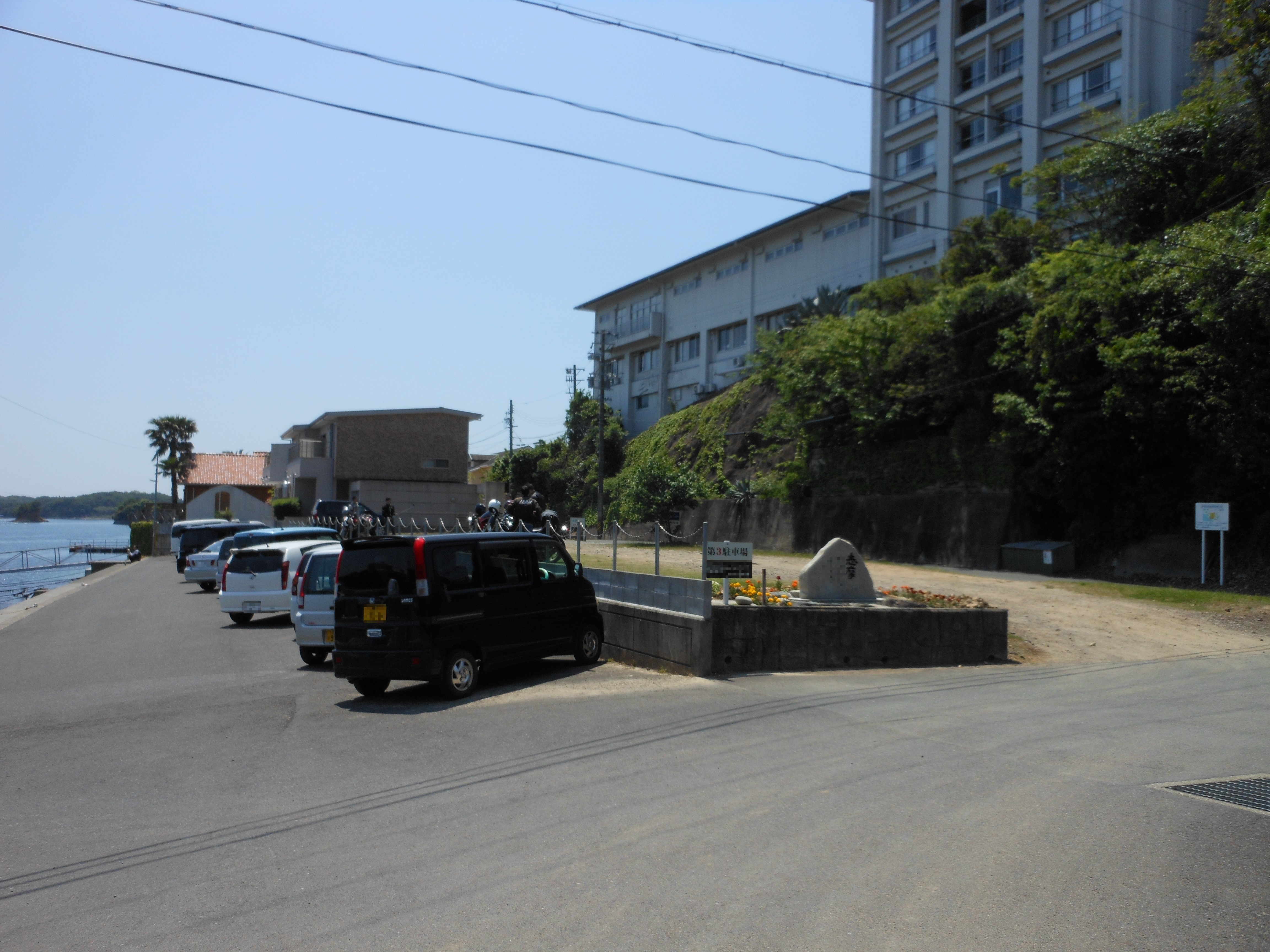 This is the site of Shinjukō station, which is located in Kashiko island, Shima, Mie, Japan.